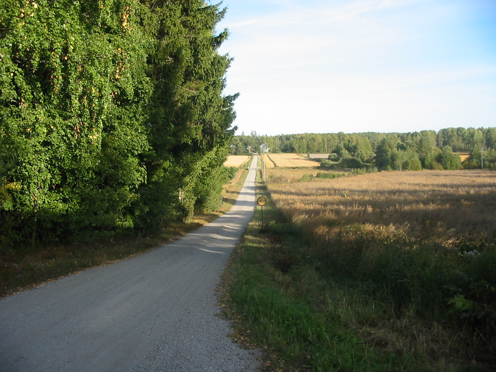 A view over the valley of river Ihodenjoki in Ihode, Pyhäranta, Finland.